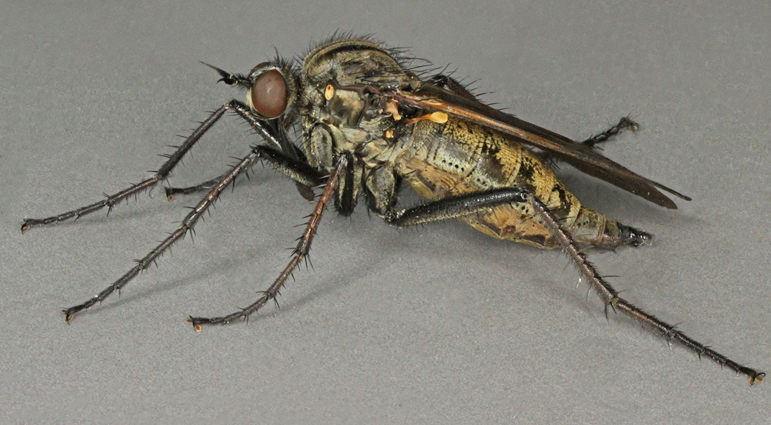 Empis tesselata, Minera Quarry, North Wales, June 2012 2